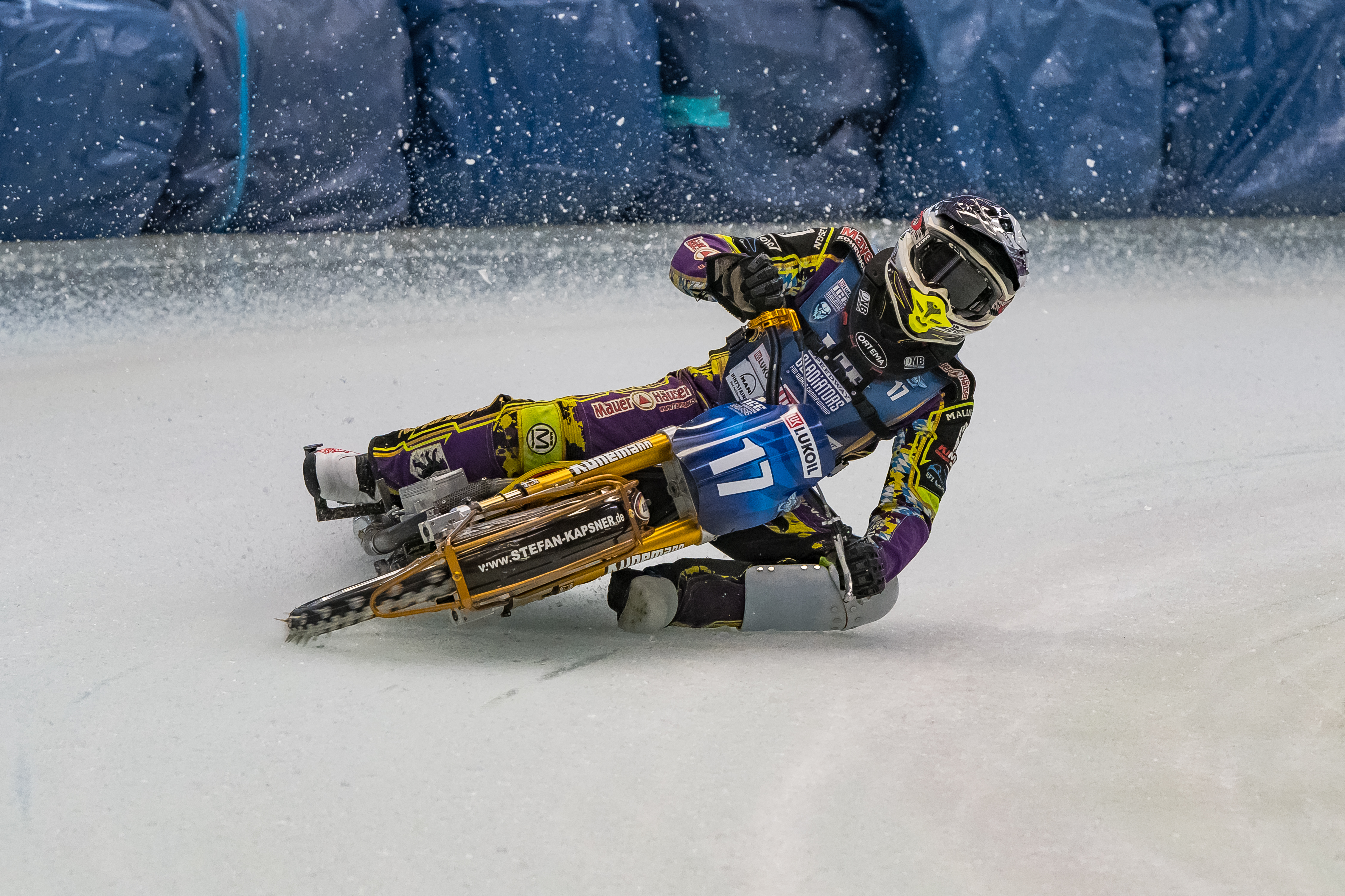 2018 FIM Ice Speedway Gladiators World Championship Final 4 - Inzell, Germany; Practice on March 16, 2018; Max NIEDERMAIER